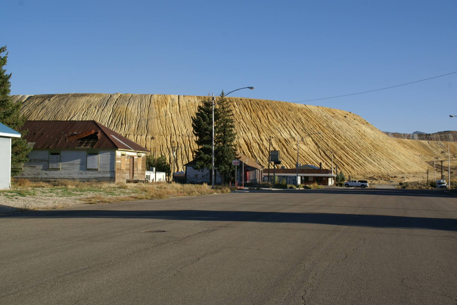 Main street and mine tailings at Ruth, Nevada, USA